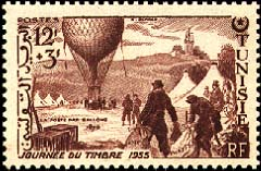 Postal_Stamp_Day_Post_Balloon (Semi-Postal)